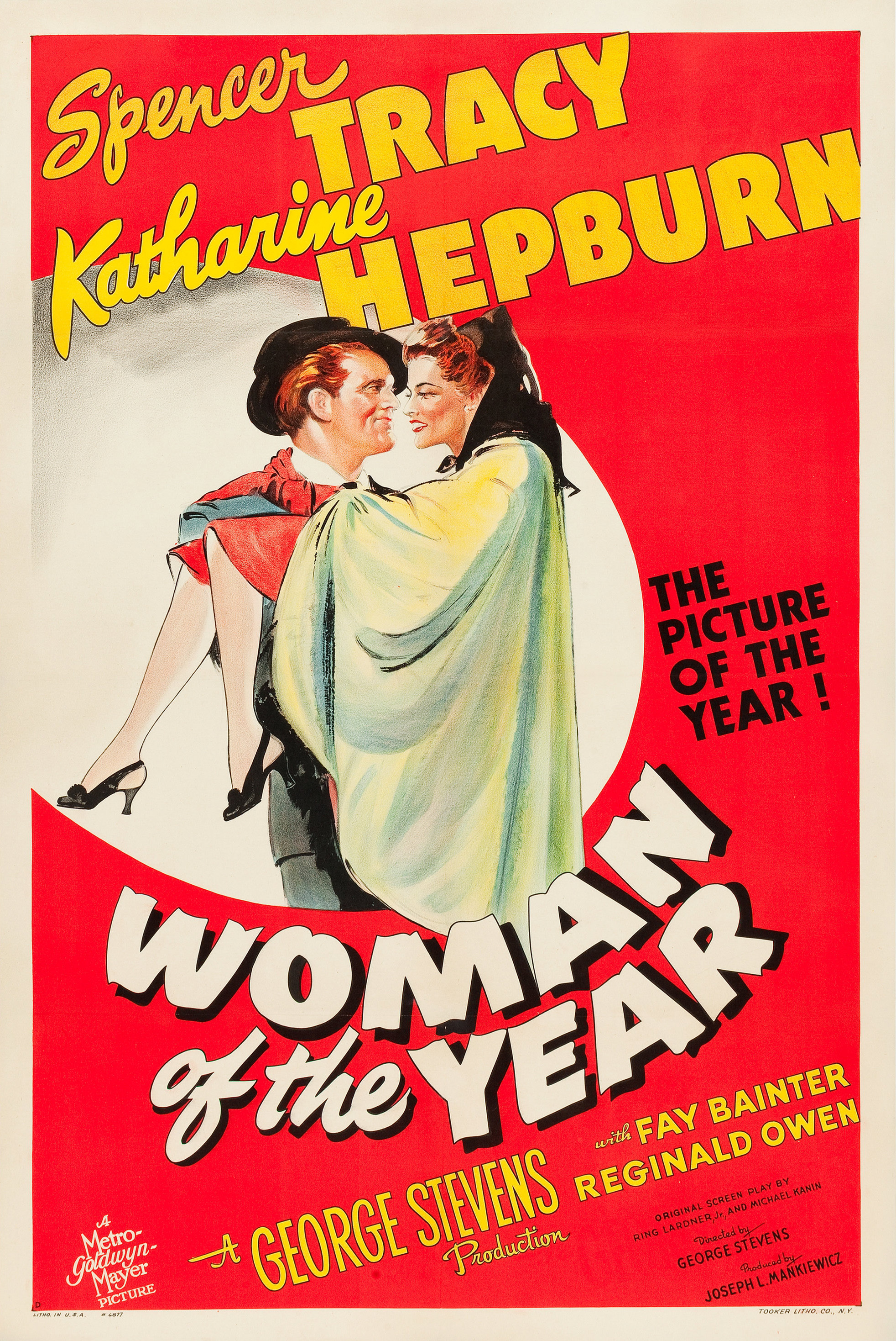 "Style D" theatrical poster for the American release of the 1942 film Woman of the Year.